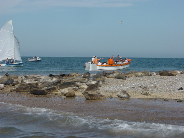 Grey Seals basking on Beach, Blakeney Point, Norfolk